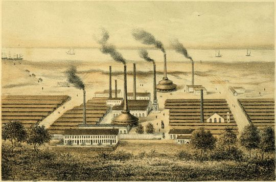 Frederiksholms Tegl- og Kalkværker in Copenhagen, Denmark in about 1880